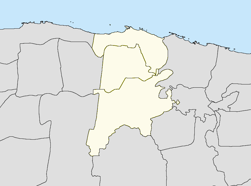 Showing barrios within the municipality